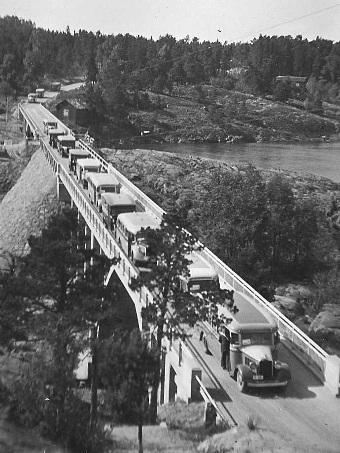 The opening ceremony of the Ukko-Pekka bridge in Naantali, Finland in 1934.